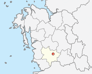 Map of Buyeo County in South Korea